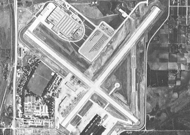 Offut Field, Nebraska in the mid 1940s